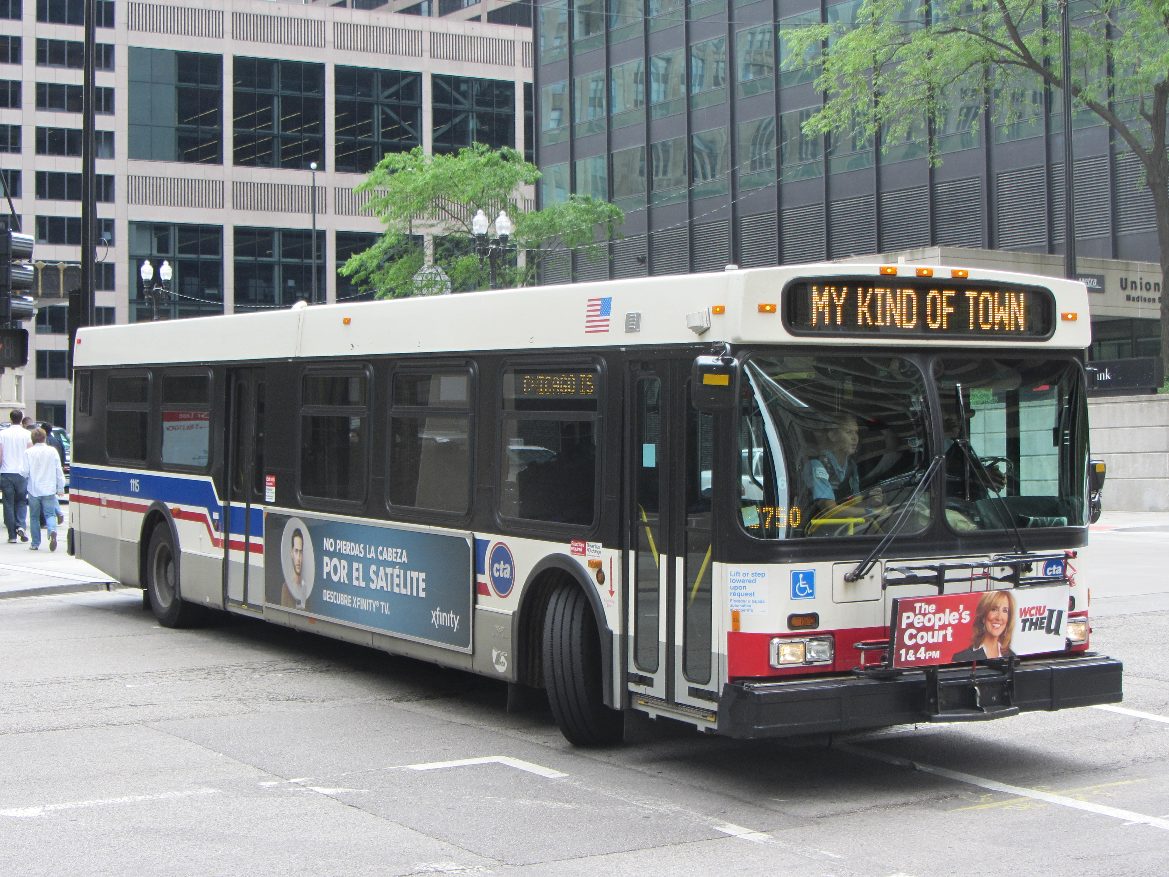 20120521 13 Canal St. near Madison St.